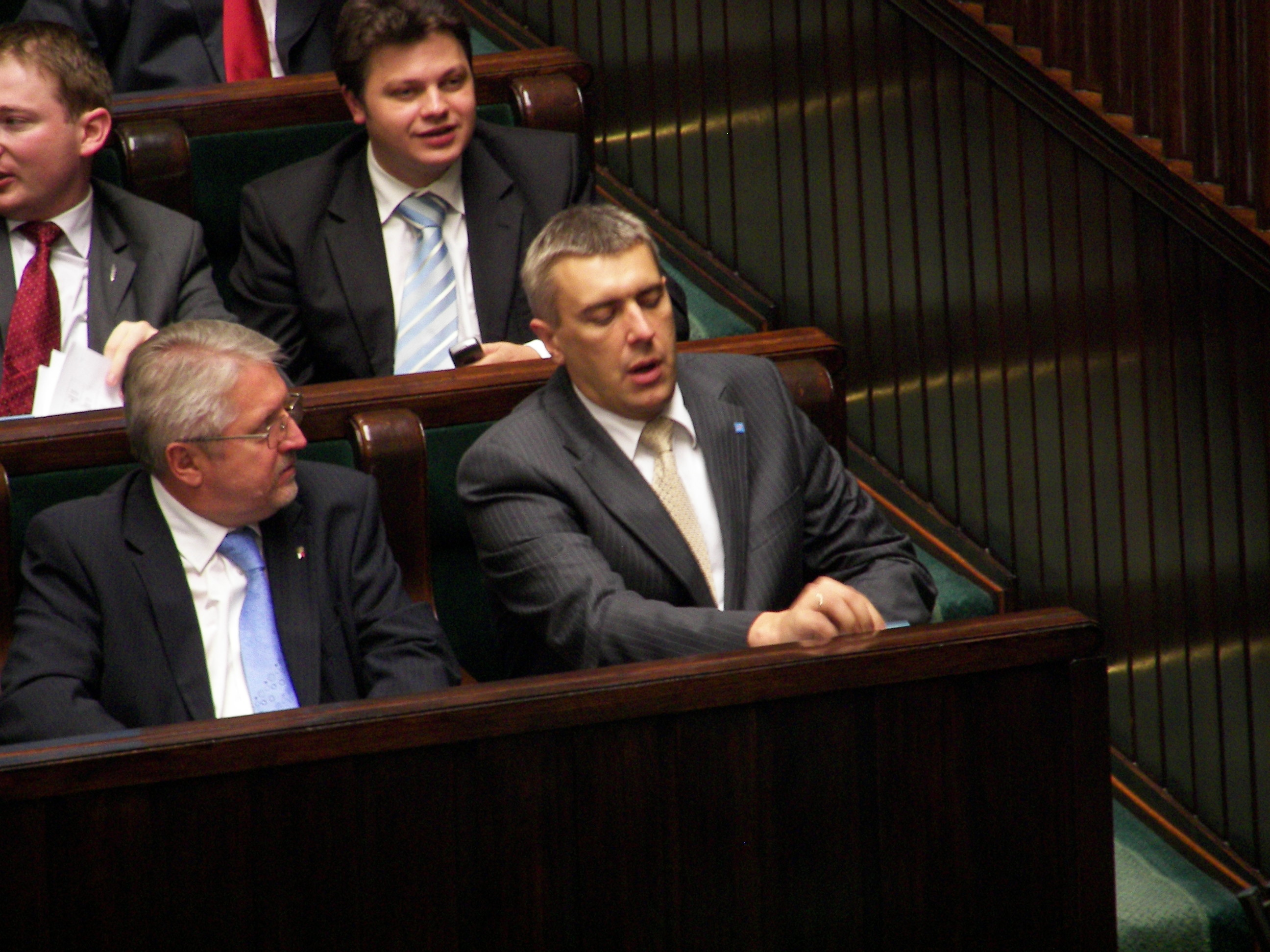 Poland's parliament called early elections (Fri Sep 7, 2007)